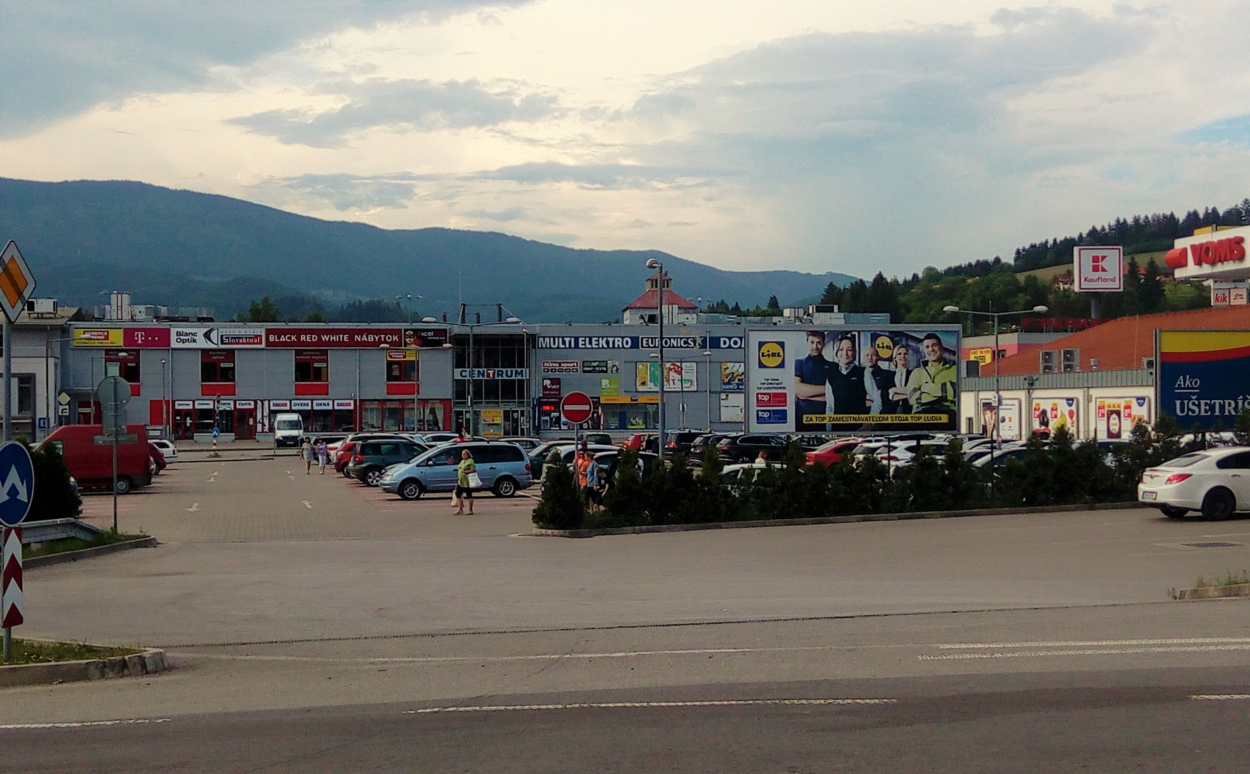 Shopping park in Dolný Kubín, Slovakia